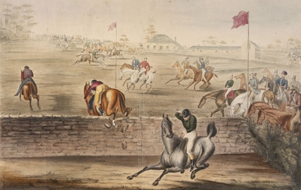 Five-Dock, NSW Grand Steeplechase. The Stone Wall - Mr Garrick on British Yeoman, Mr Watt on Highflier and Mr Hely on Block.